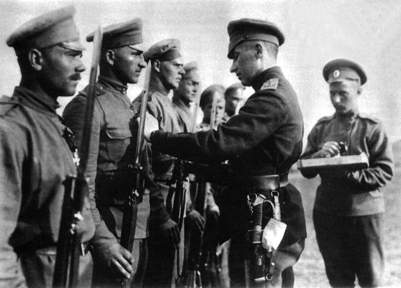 Friedrich Bredis presents awards soldiers.